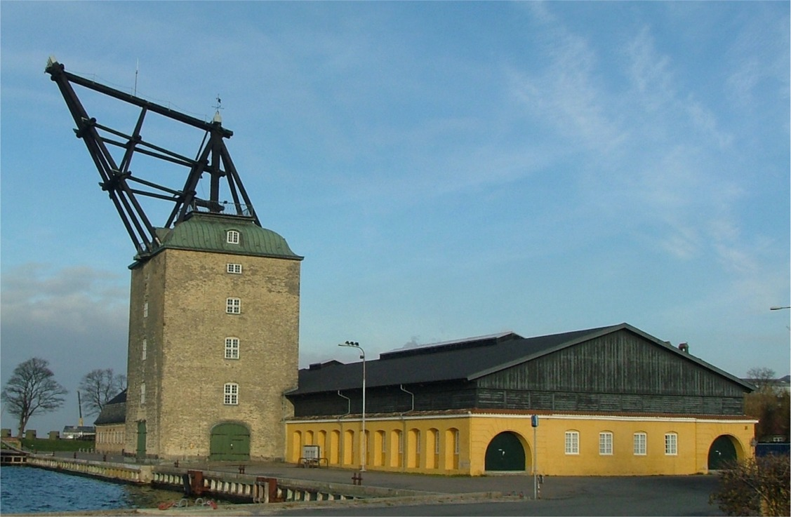 Photos from the former Naval Base Copenhagen: The riggin-sheers Photo by Jan Kronsell, 2005